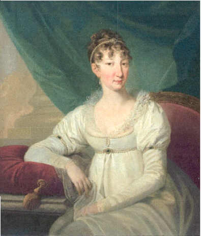 Portrait of Maria Ludovika of Austria-Este (1787-1816), Empress of Austria